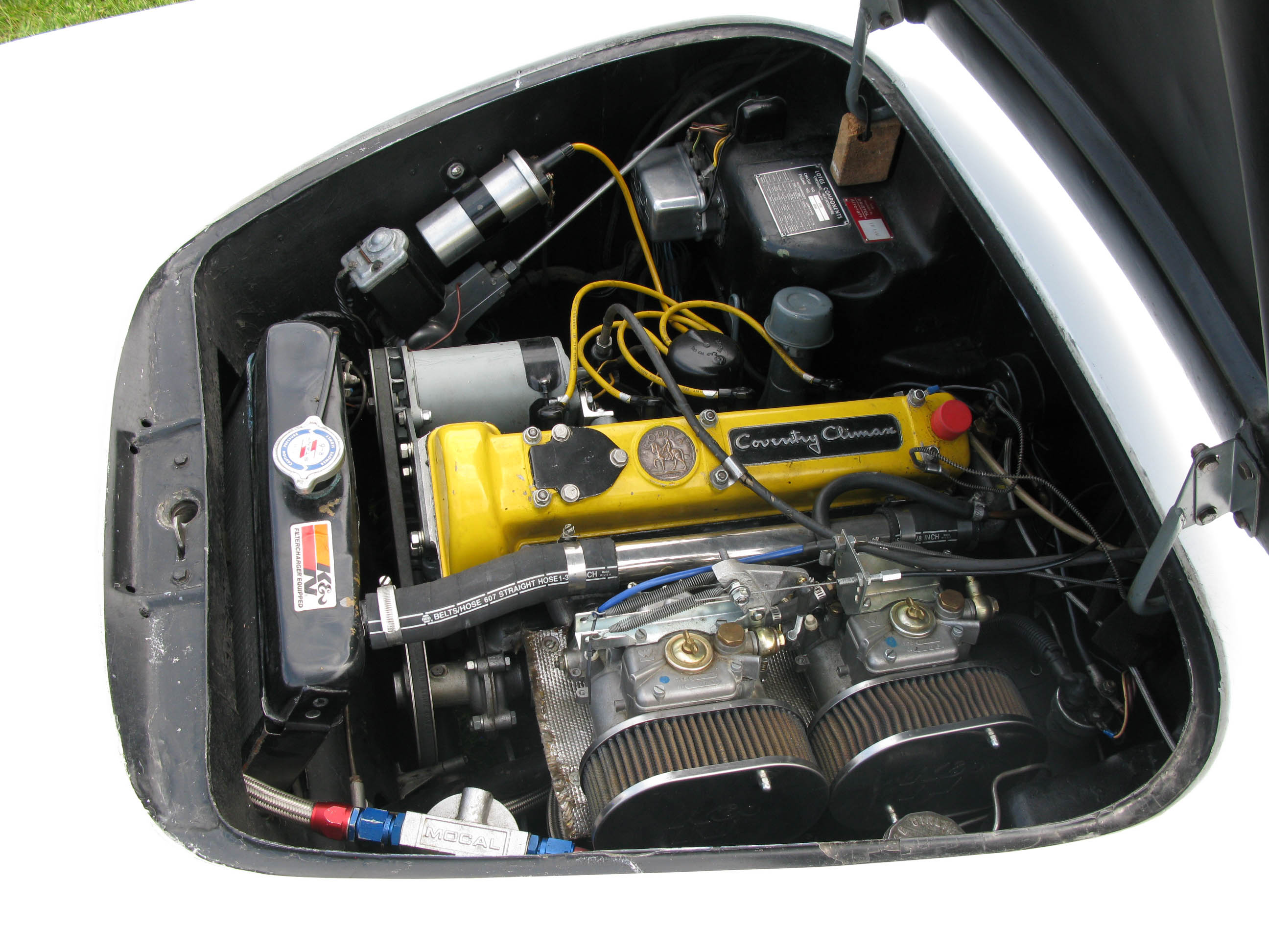 Coventry Climax FWE engine in a Lotus Elite. Event: Tjolöholm Classic Motor 2012.